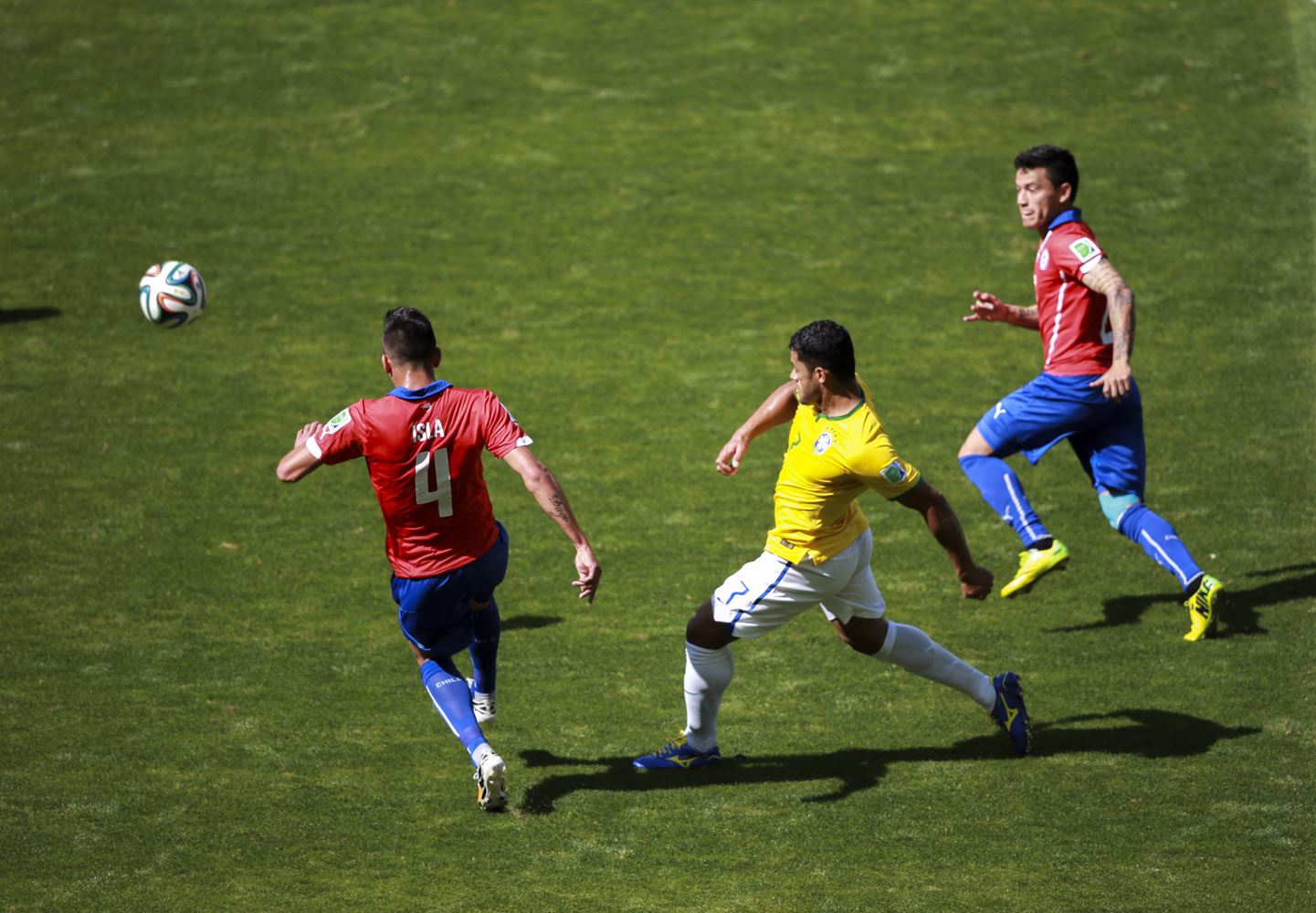 Brazil vs. Chile in Mineirão